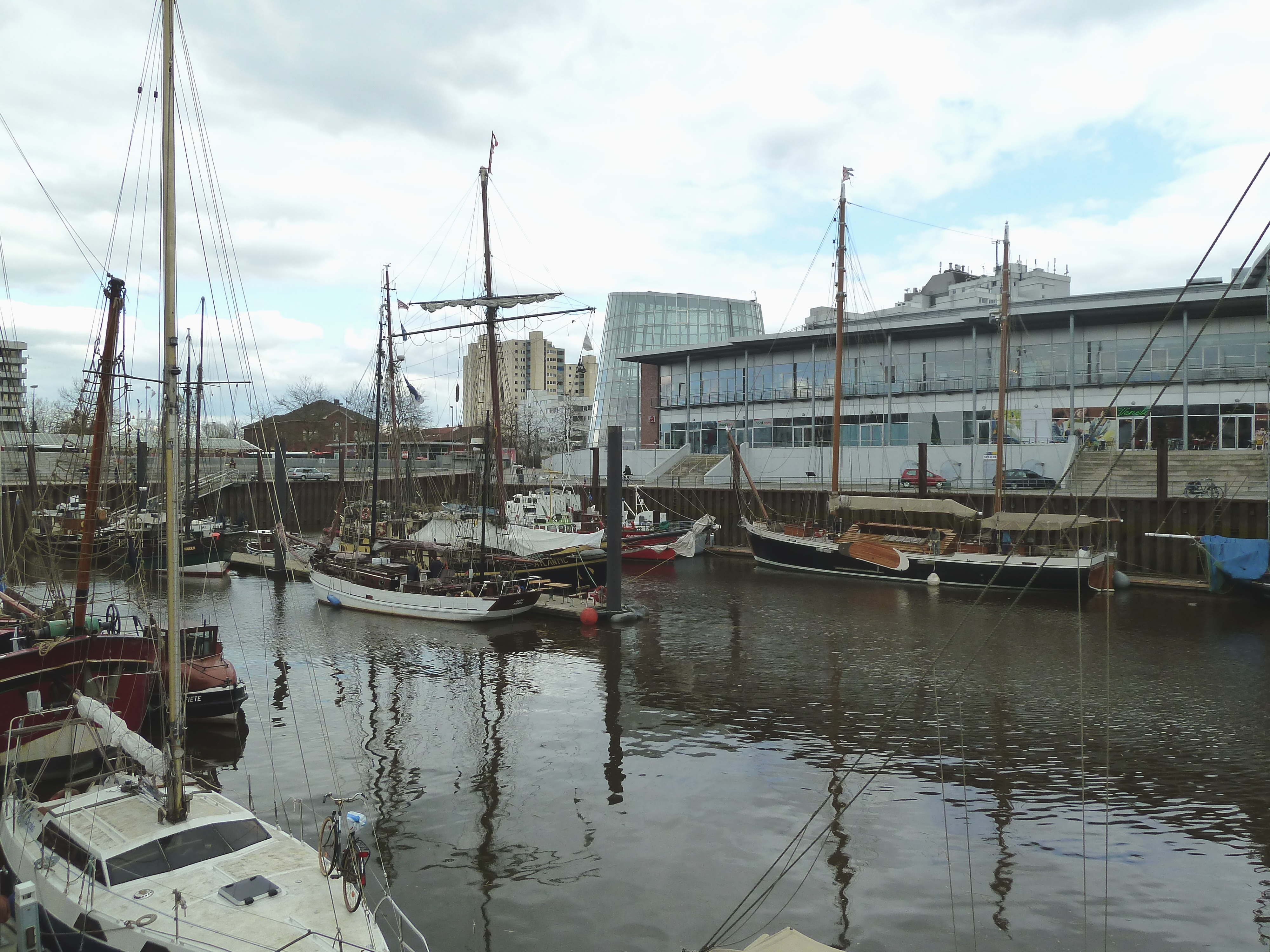 Vegesack harbour - some ships in the harbour basin